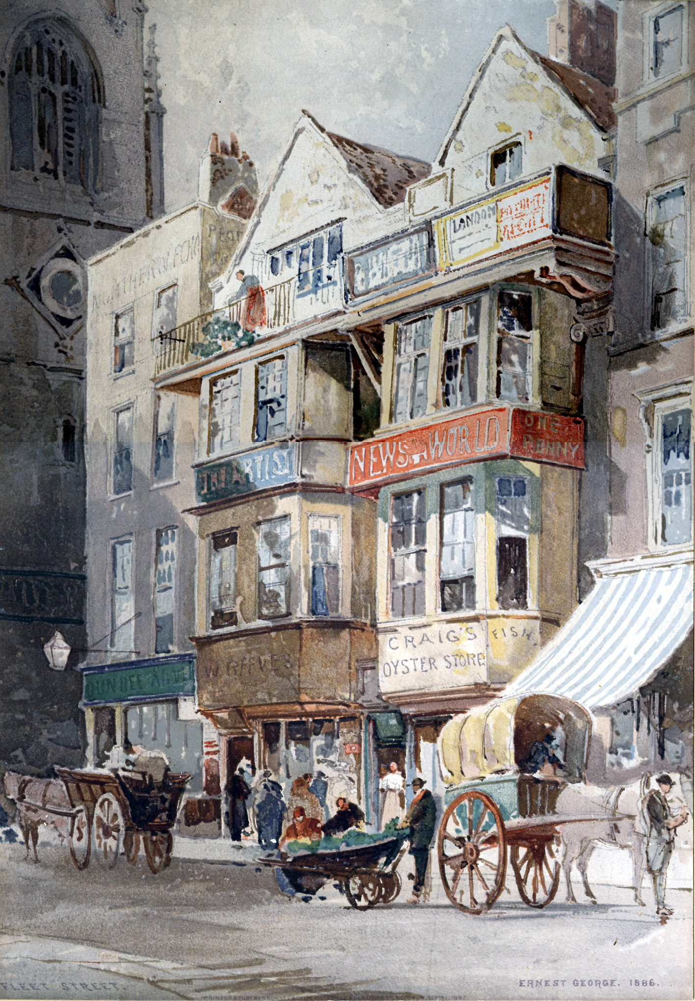 Print of a watercolour of Fleet Street, London made in 1886 by Ernest George (1839-1922).